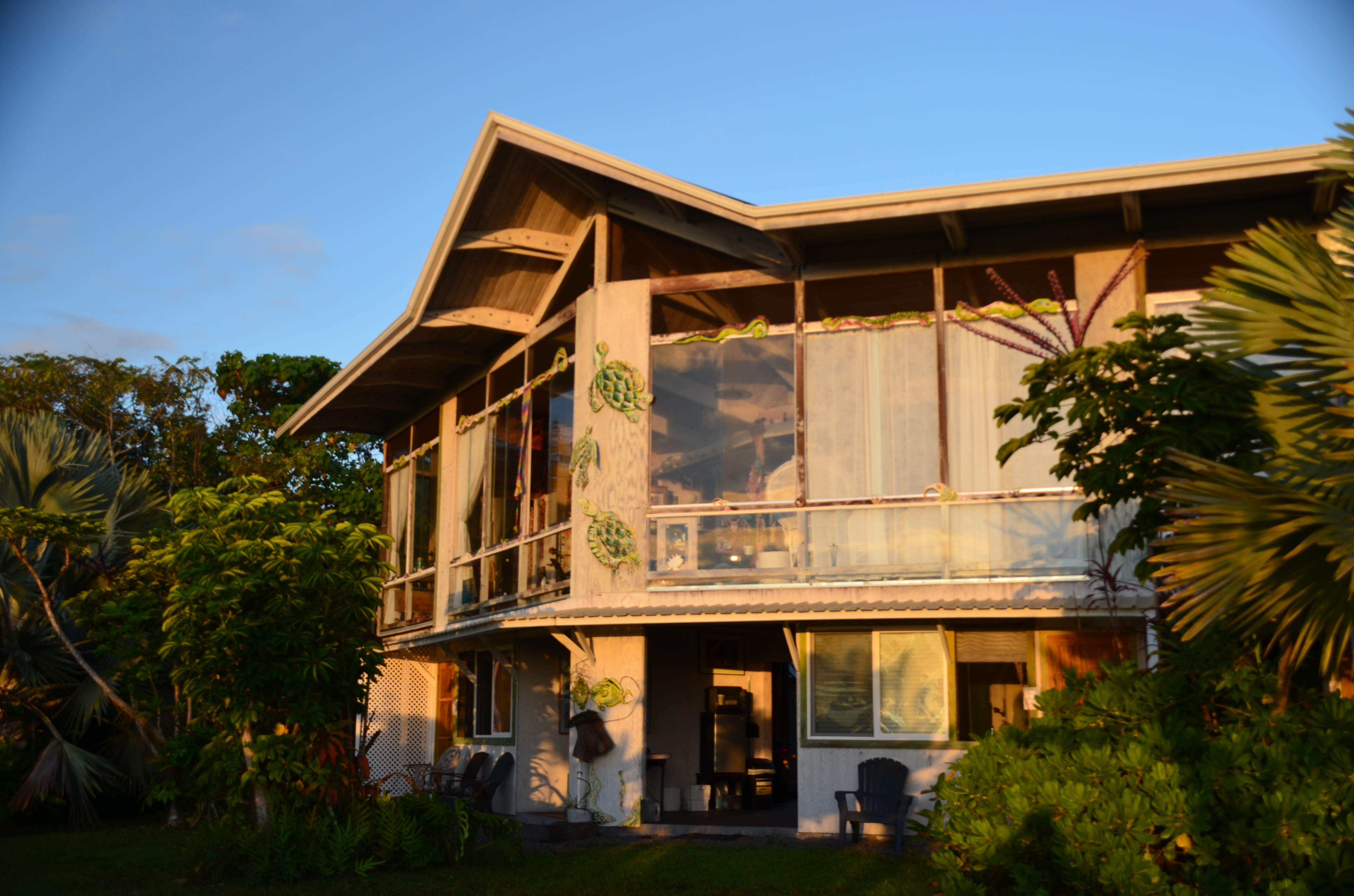 Ocean Vista (western part of Kalani Kai, cf. map in Kalani: A leap of faith, hope and love)